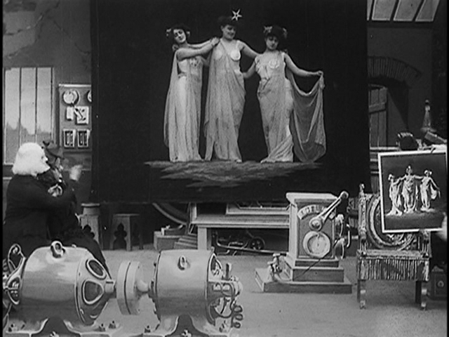 The Three Graces are projected onto a screen, in a scene from Georges Méliès's film Long Distance Wireless Photography (1908).